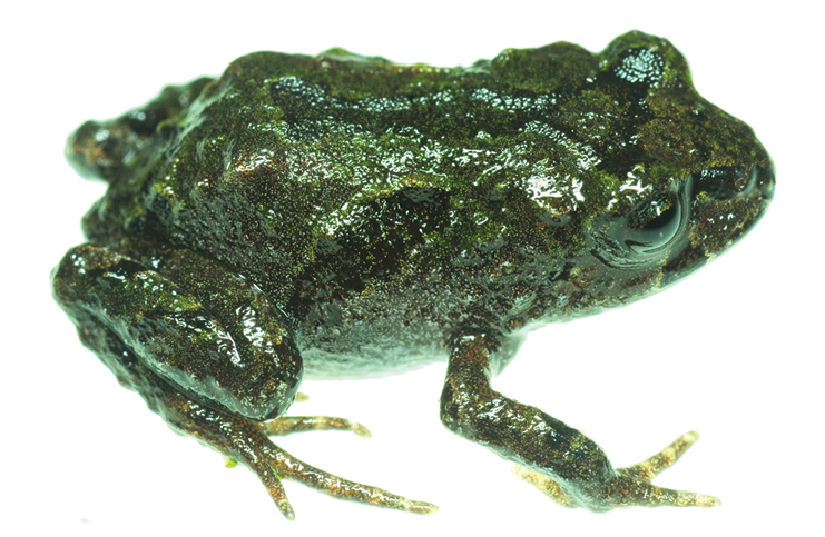 Dorsolateral view of a holotype (male) in life